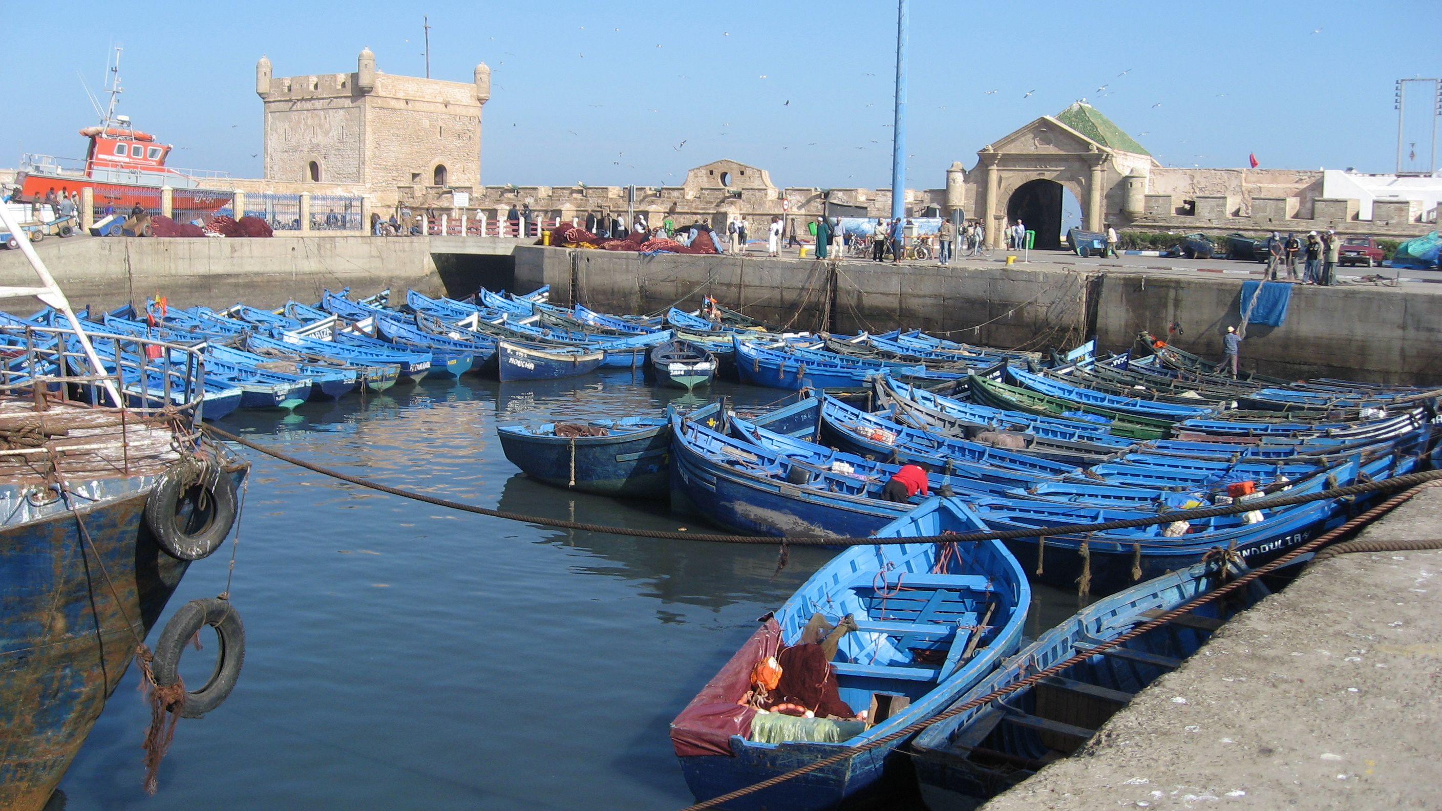 Fishing boats in Essaouria, Morocco